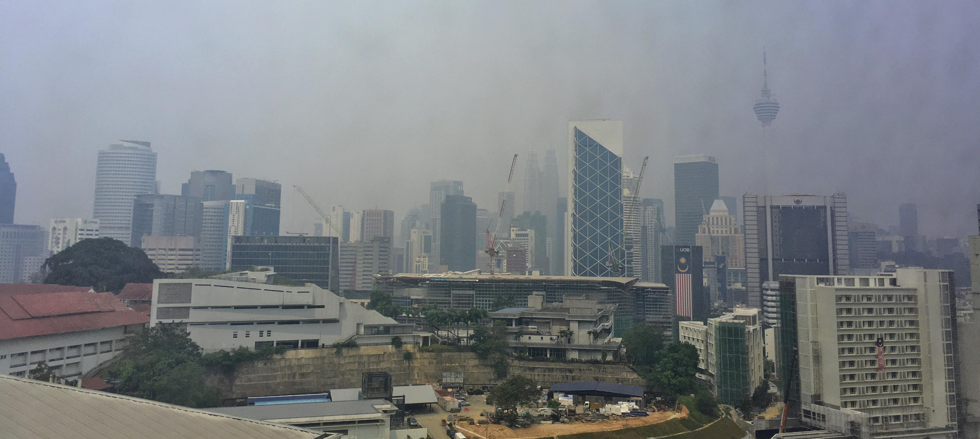 Kuala Lumpur skyline covered in haze on 11 September 2019. The Petronas Towers are barely visible.